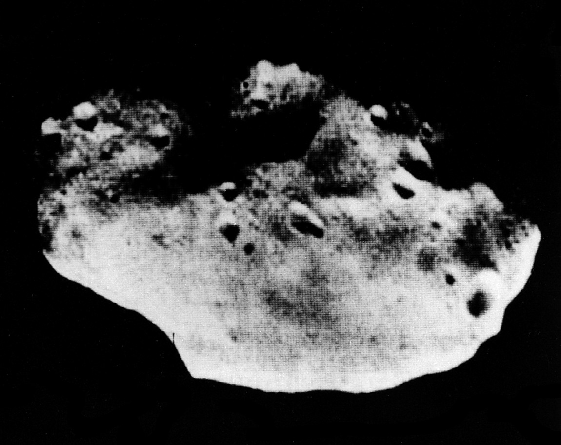 Mariner 9 image of the Martian satellite Phobos taken from 5760 km. Mariner 9 provided the first good views of Phobos. The moon is about 26 km across its longest dimension. Craters as small as 300 m are visible in this image.